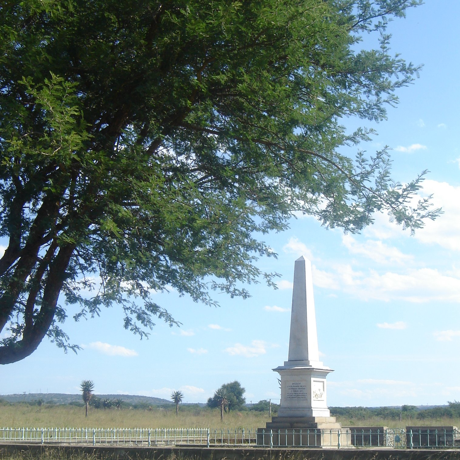 The Blaauwkranz monument commemorating the site where a large number of Voortrekkers and their workers where murdered by a Zulu impi